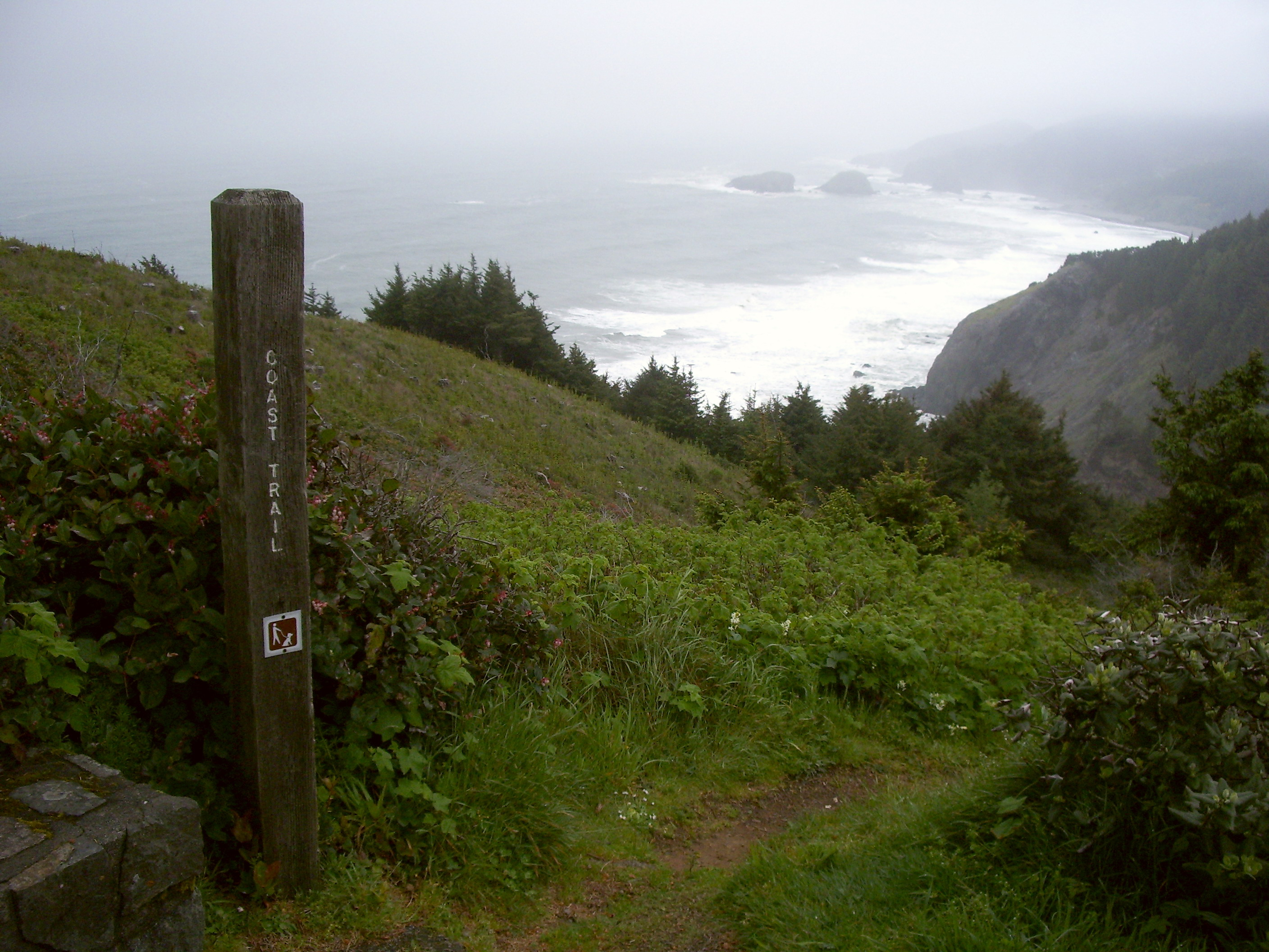 An Oregon Coast Trail marker where the trail crosses over a headland at Samuel H. Boardman State Park. This is near the offshore House Rock, just north of House Rock Creek.